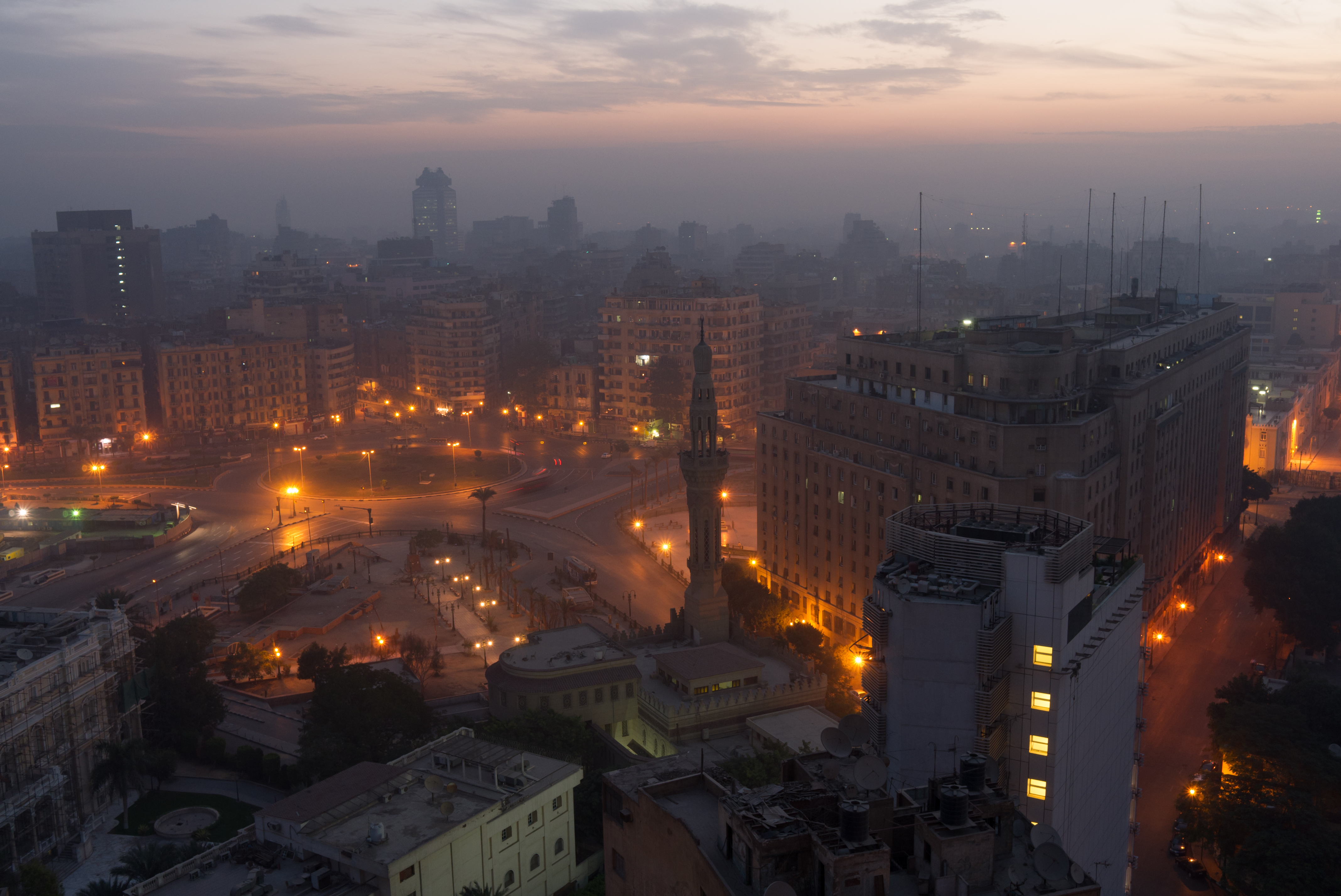 Tahrir Square (ميدان التحرير), Cairo, Egypt, in the early morning. Original upload information on Flickr: “I got up at 5 am that morning, when I noticed the sun rising behind the curtain of my hotel room window. Something in the way the sky looked attracted me. Walking towards the balcony of my room, I saw dawn painting a suble orange-reddish band on the horizon. Beneath, the street lights around Tahrir Square were glowing like lava, adding a mystic feeling to the scene.”